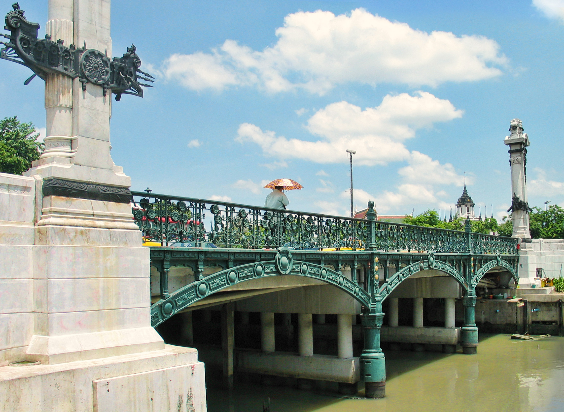 Saphan Phan Faa Lilat (Phan Fa Lilat bridge): Ratchadamnoen Klang Avenue over Khlong Ong Ang